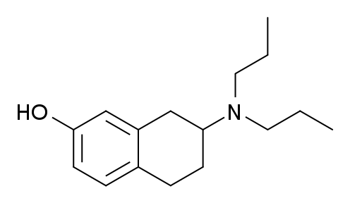 i drew this anyone can use it